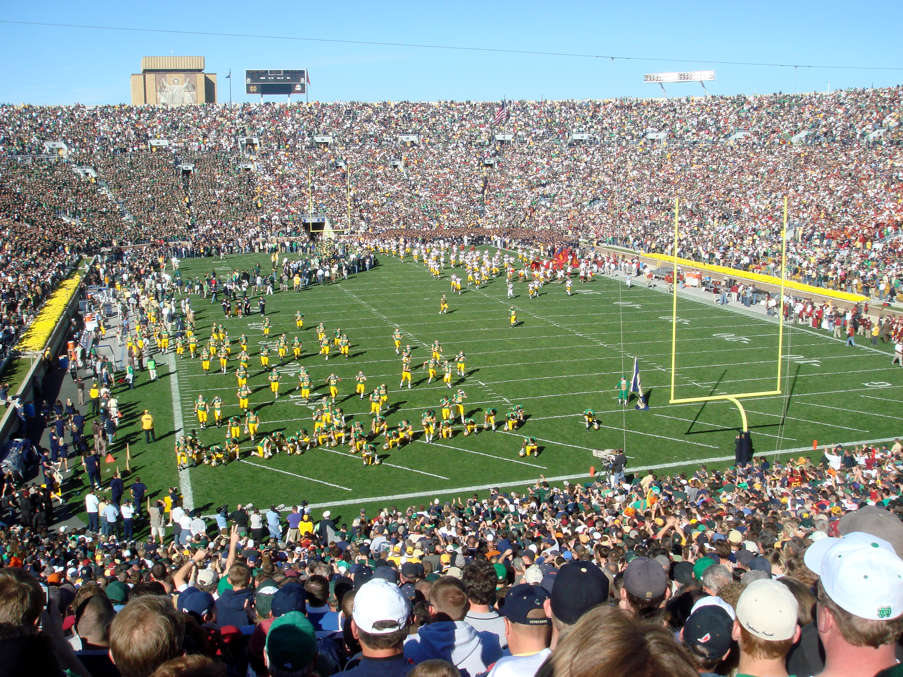 Notre Dame Stadium: the Notre Dame Fighting Irish and USC Trojans take the field for the 79th edition of the inter-sectional rivalry series. USC would win 38-0.